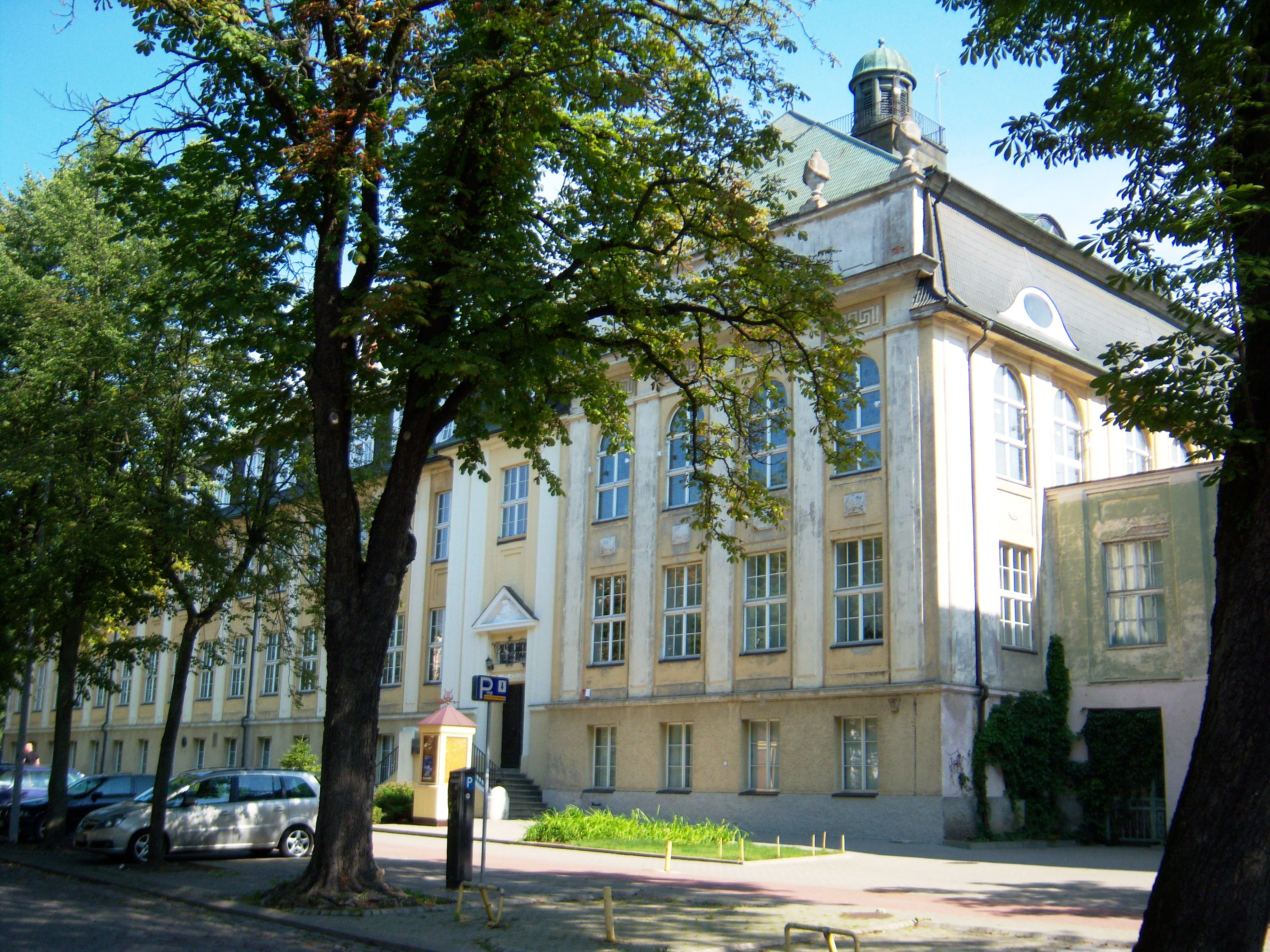 Klaipėda University, faculty of arts, Lithuania